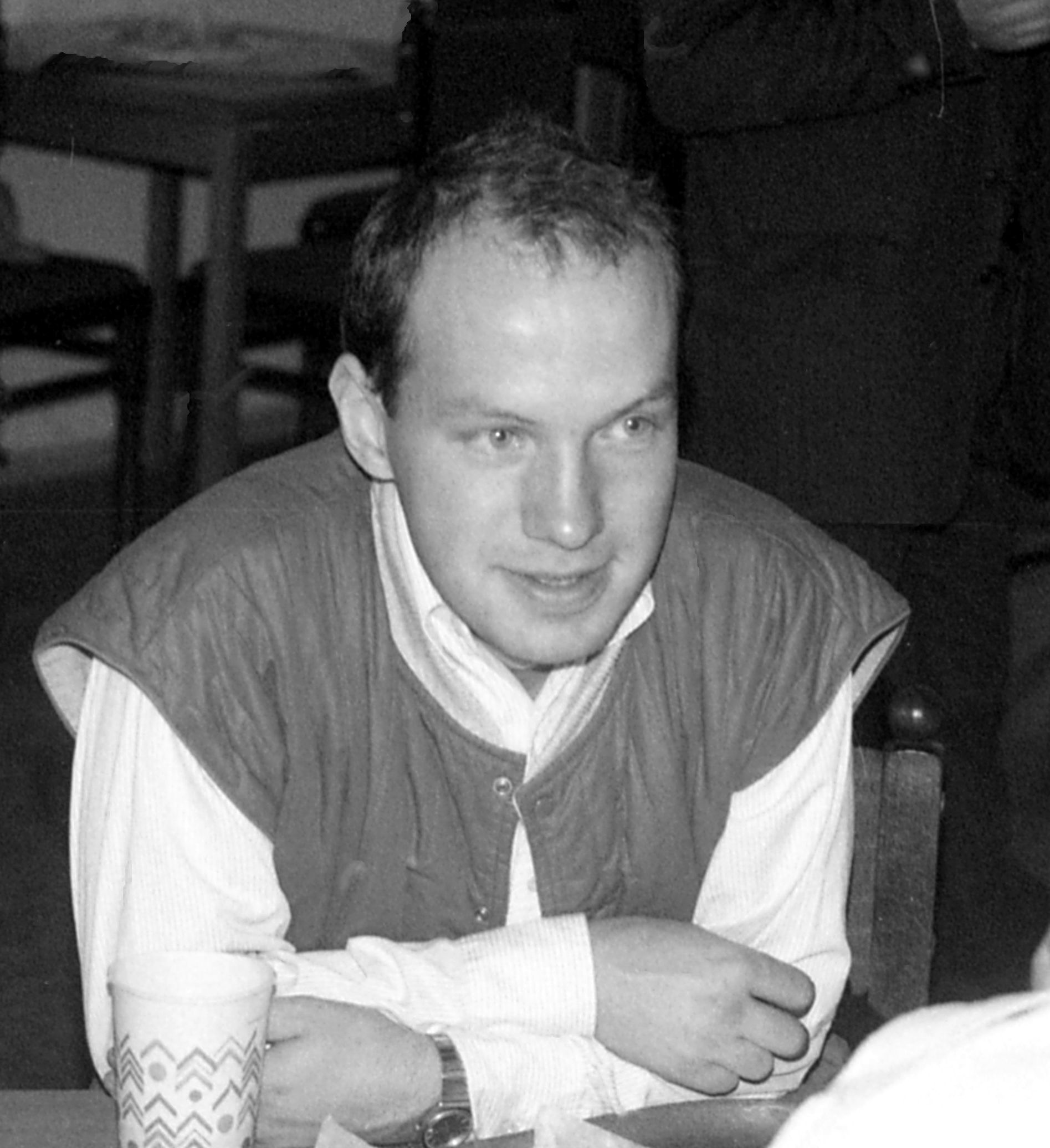 Pavel Fischer 1989